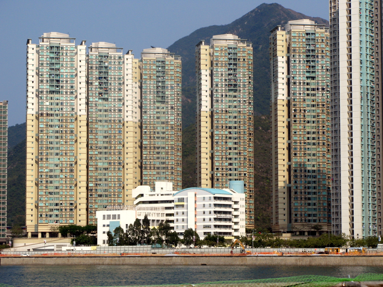 曉峰灣畔 HK Mountain Shore